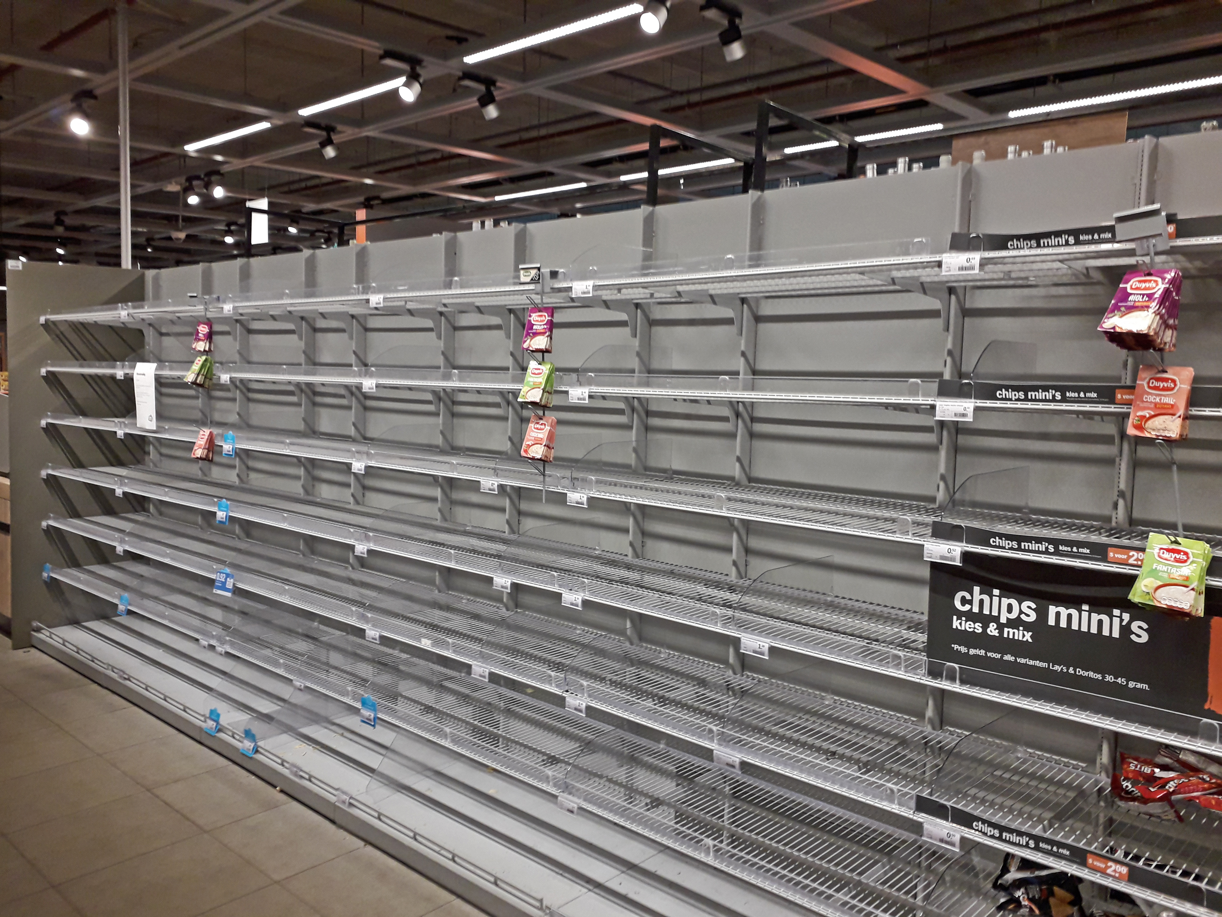 Empty chips shelves during the buying panic related to the coronavirus pandemic in the Netherlands. Albert Heijn, Martinus Nijhofflaan, Delft.